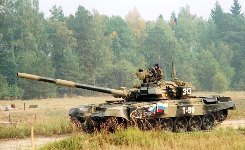 T-90 main battle tank.